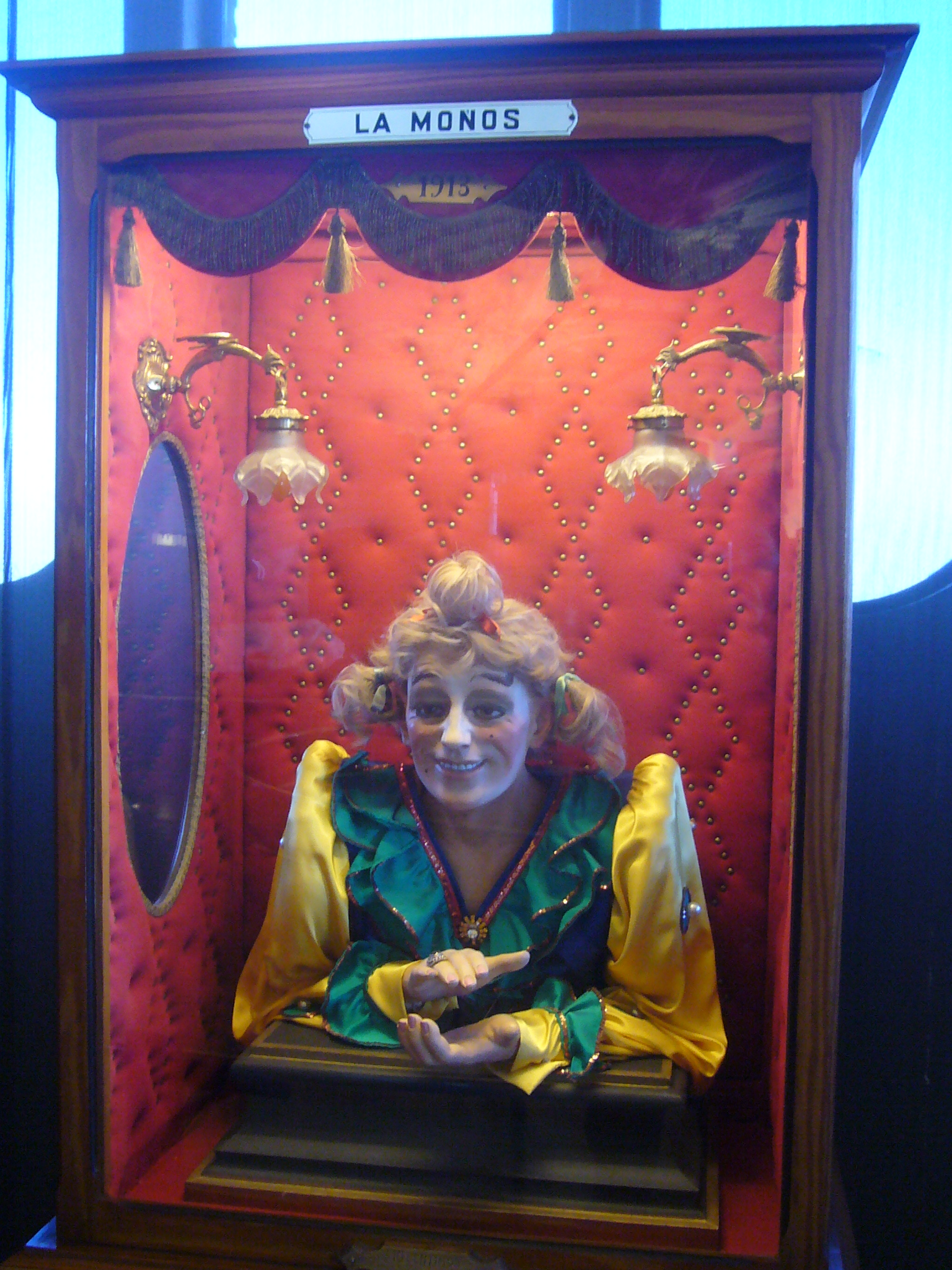 La Moños - Museu d'Autòmats del Tibidabo